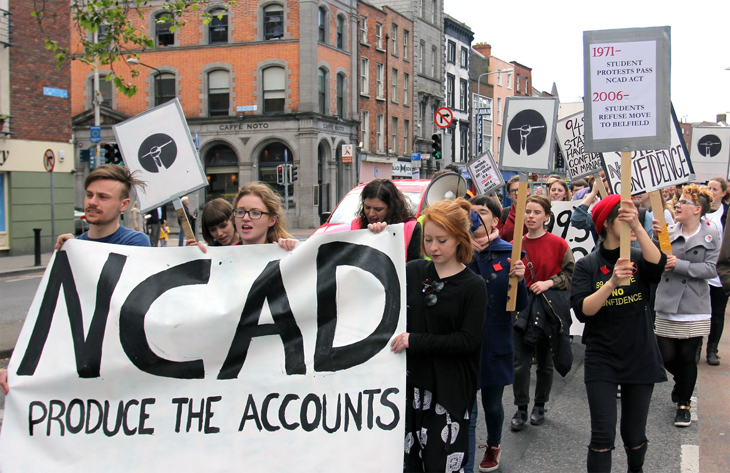 Art students protest NCAD director Declan McGonagle